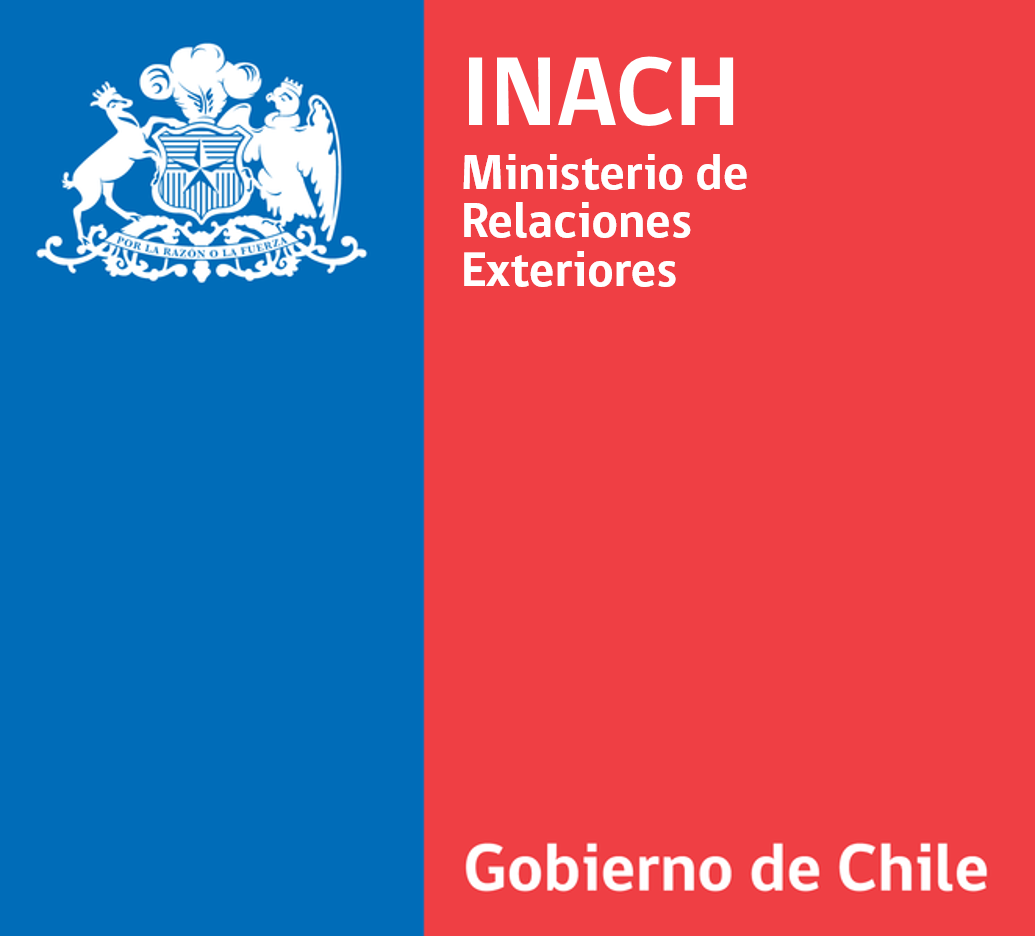 INACH Logo derived from Gobierno de Chile Logo.